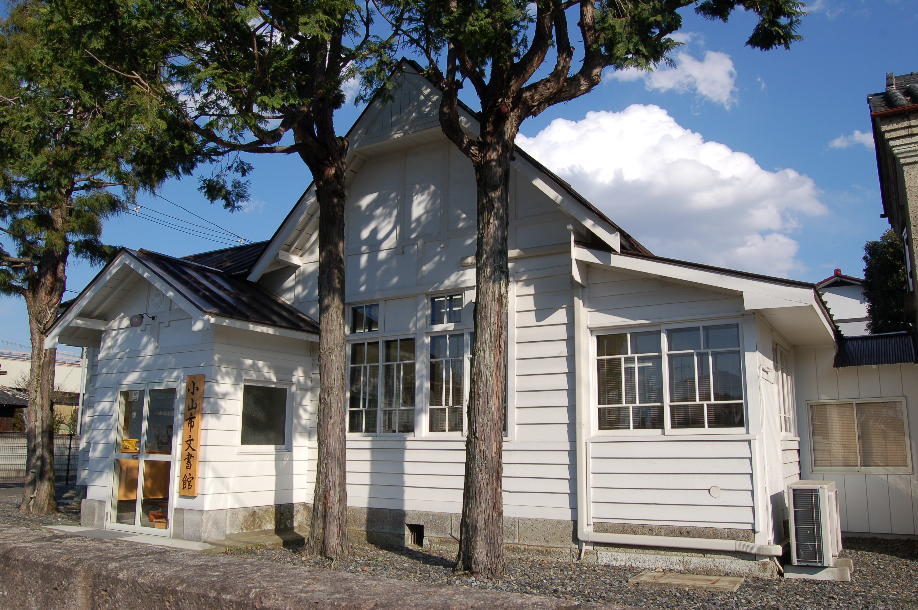 Oyama City Archives,Tochigi,Japan